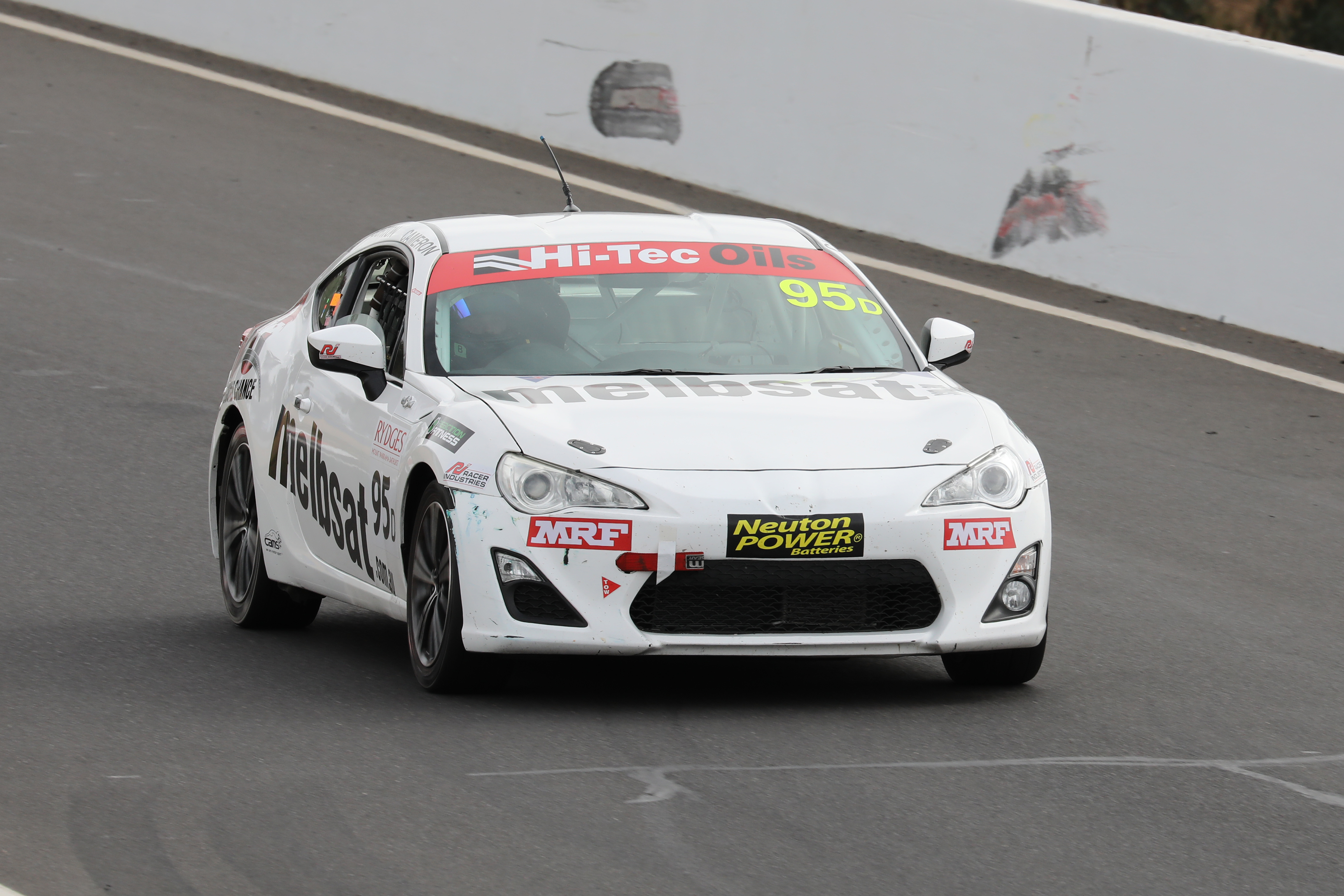 The Toyota 86 GT of Aaron Cameron, Kyle Gurton and Cooper Murray at the 2019 Bathurst 6 Hour